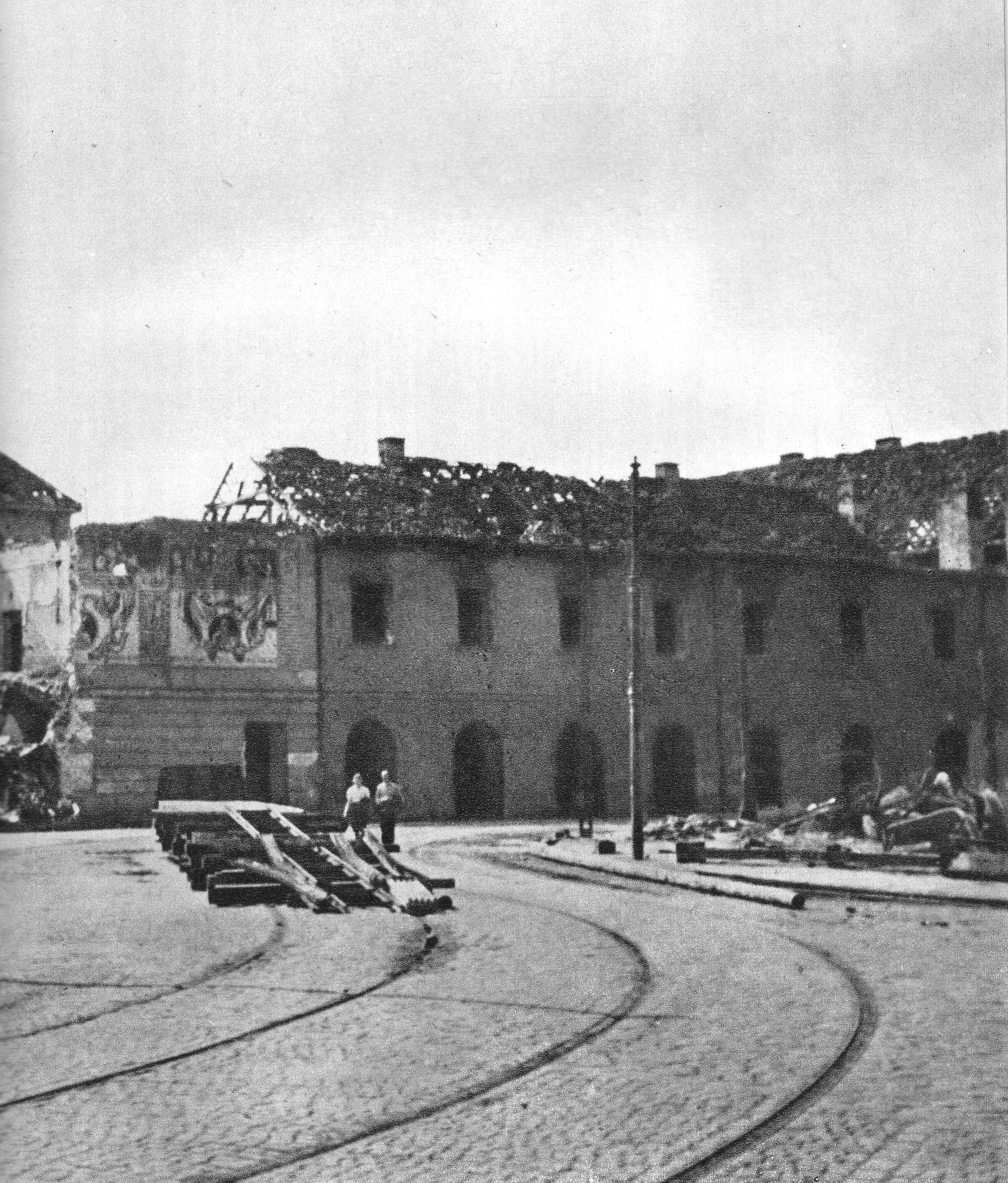 Arsenał Królewski w Warszawie